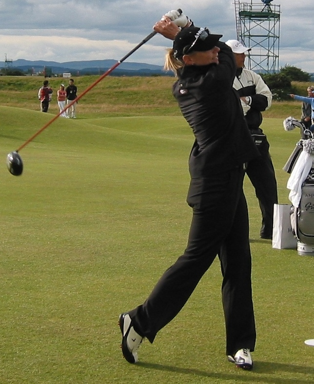 Annika Sorenstam tees off on the 18th during Moday Practice at the 2007 Womens British Open at St. Andrews